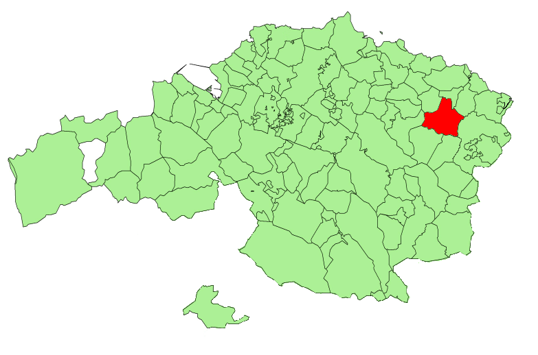 Aulesti municipality in the province of Biscay